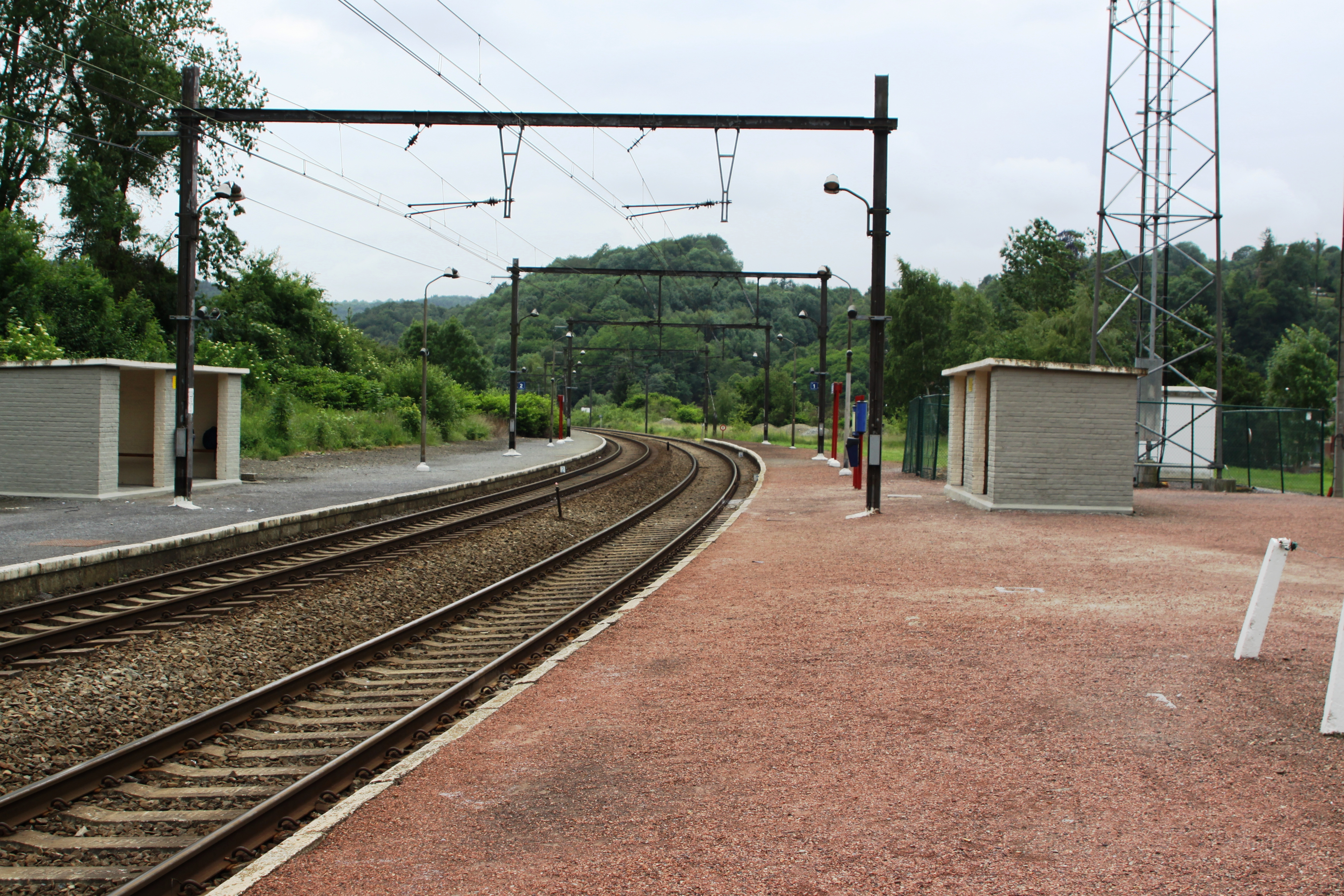 Railway station Nessonvaux on line 37 SNCB, seen in direction Liège